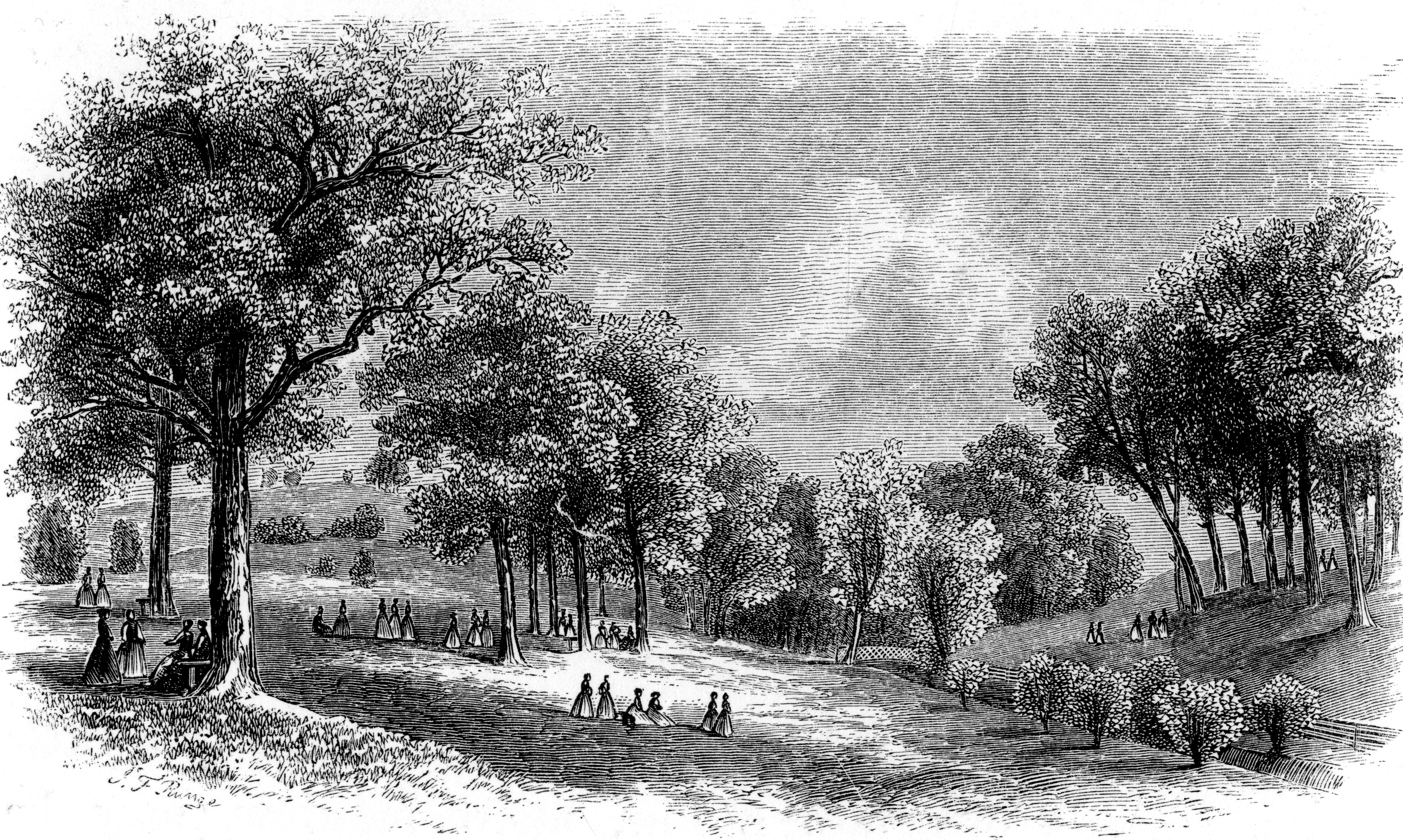 "Scene in the Valley of Mill Cove Brook" (now the Fonteynkill on the campus of Vassar College in the town of Poughkeepsie, New York, US.)